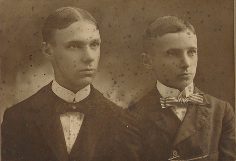 A picture of Charles Wickwire and Fredric Wickwire of Cortland, New York.